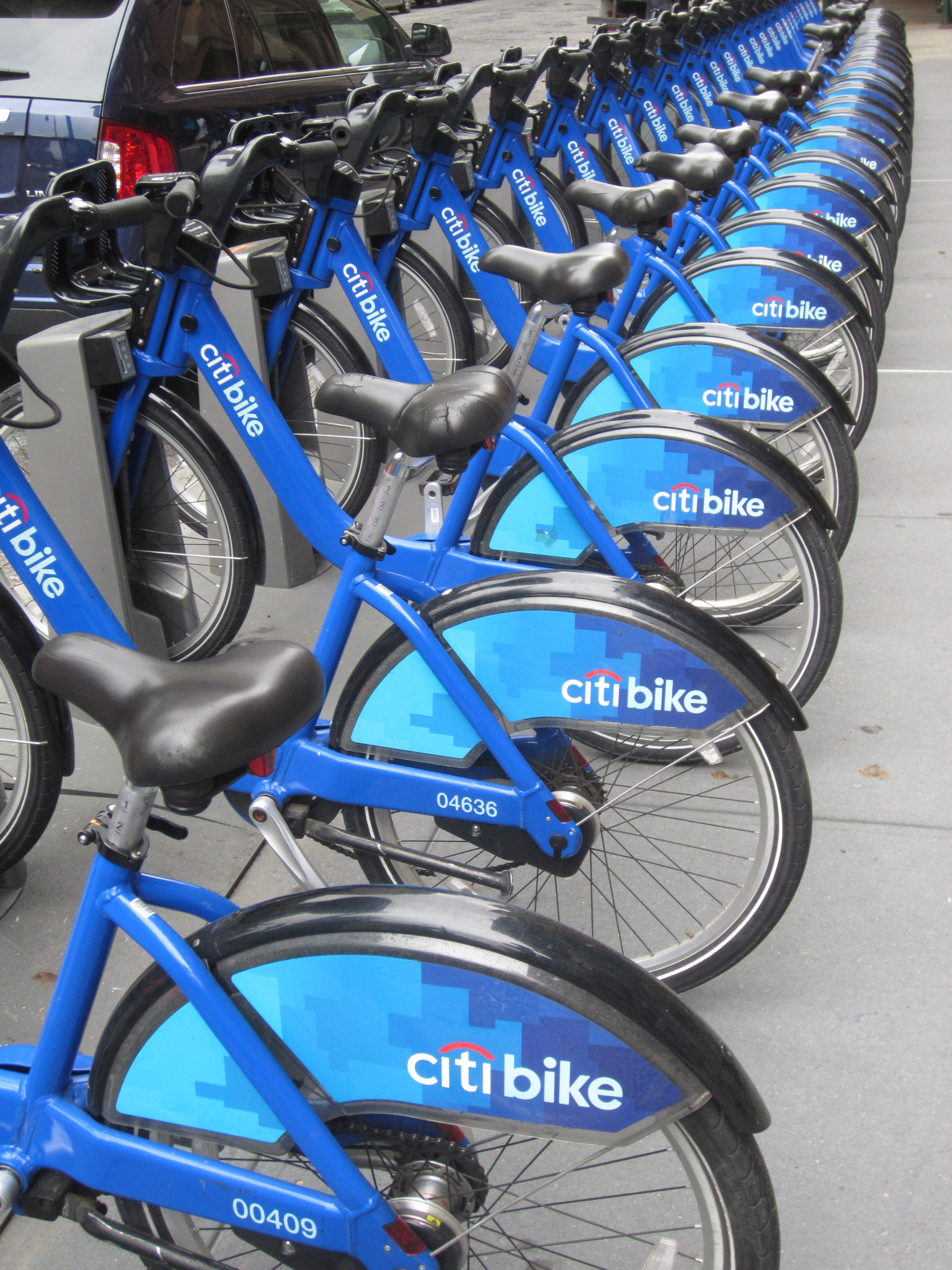 Citi Bike, NYC (2014)